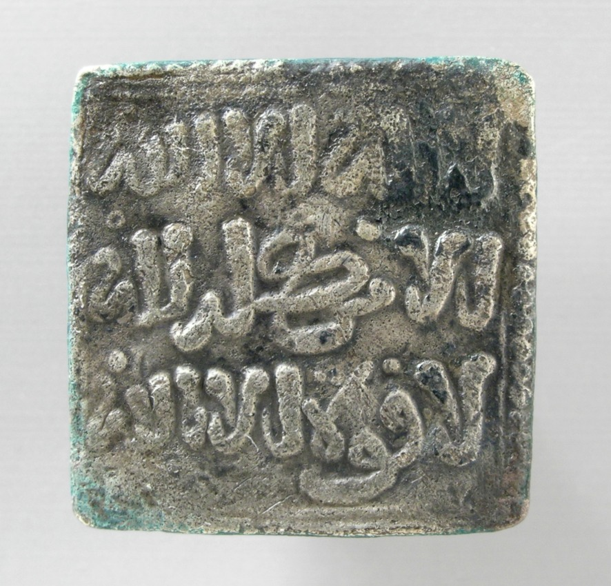 Spain or North Africa, 1163-1242/558-640 A.H. Tools and Equipment; coins Coin The Madina Collection of Islamic Art, gift of Camilla Chandler Frost (M.2002.1.435) Islamic Art